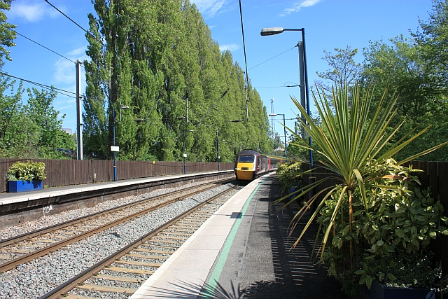 University station An intercity train approaches on its way to Bristol or beyond.